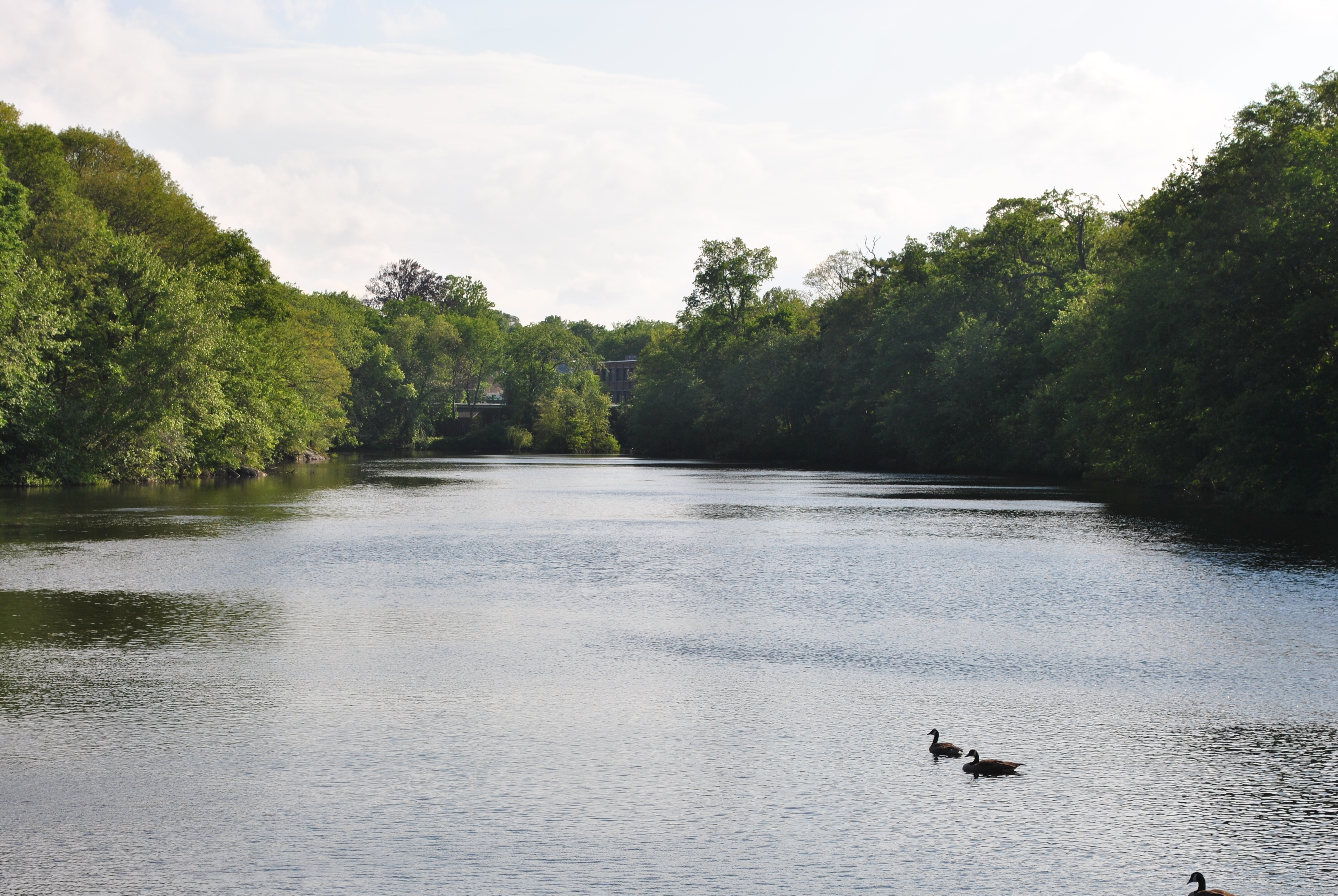 Mill Pond with Canada geese as seen from Bussey St. AliMed can be seen in the background.